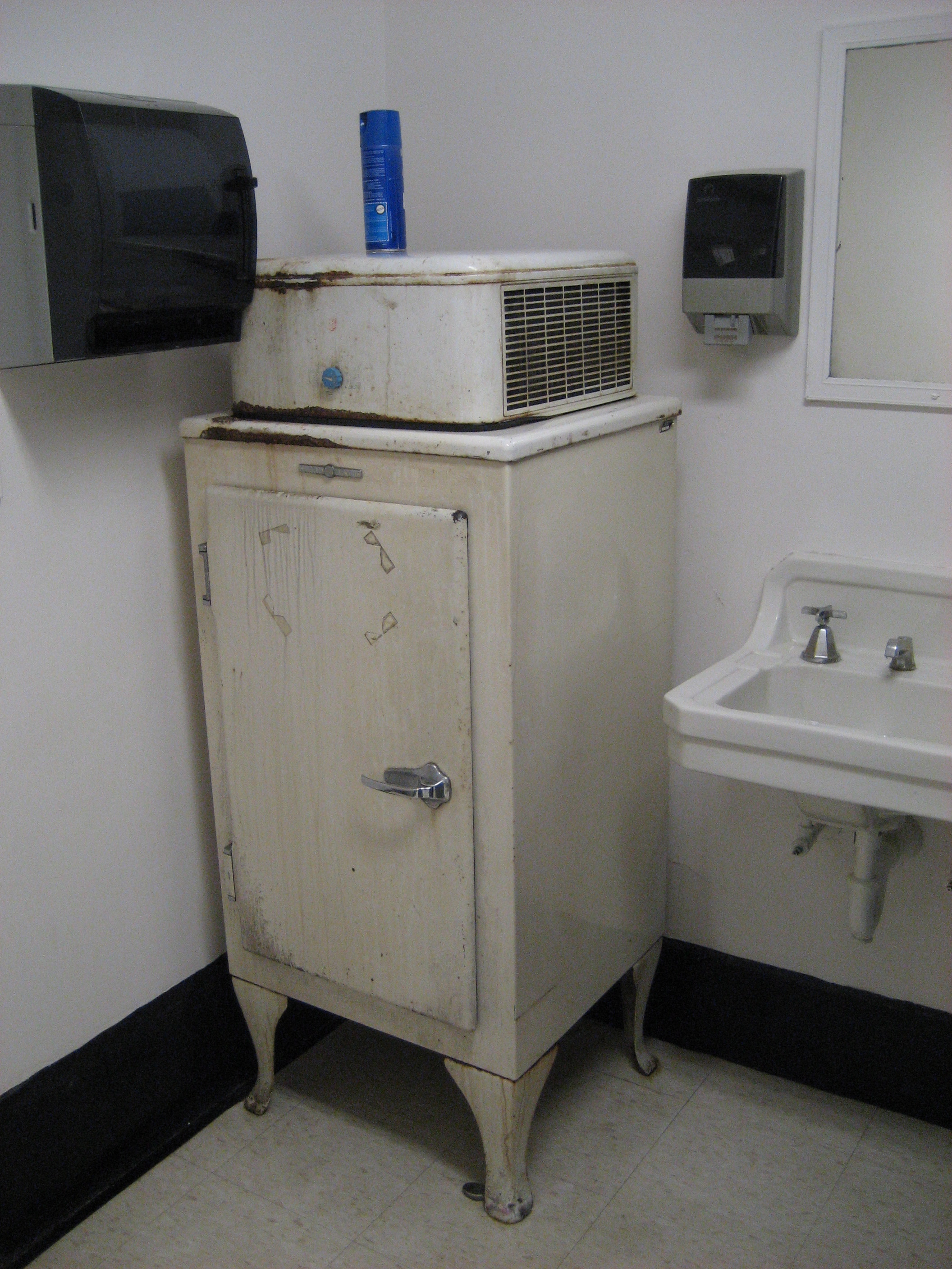 General Electric brand refrigerator of "Monitor top" style of the first half of the 20th century, still functioning in 2007.